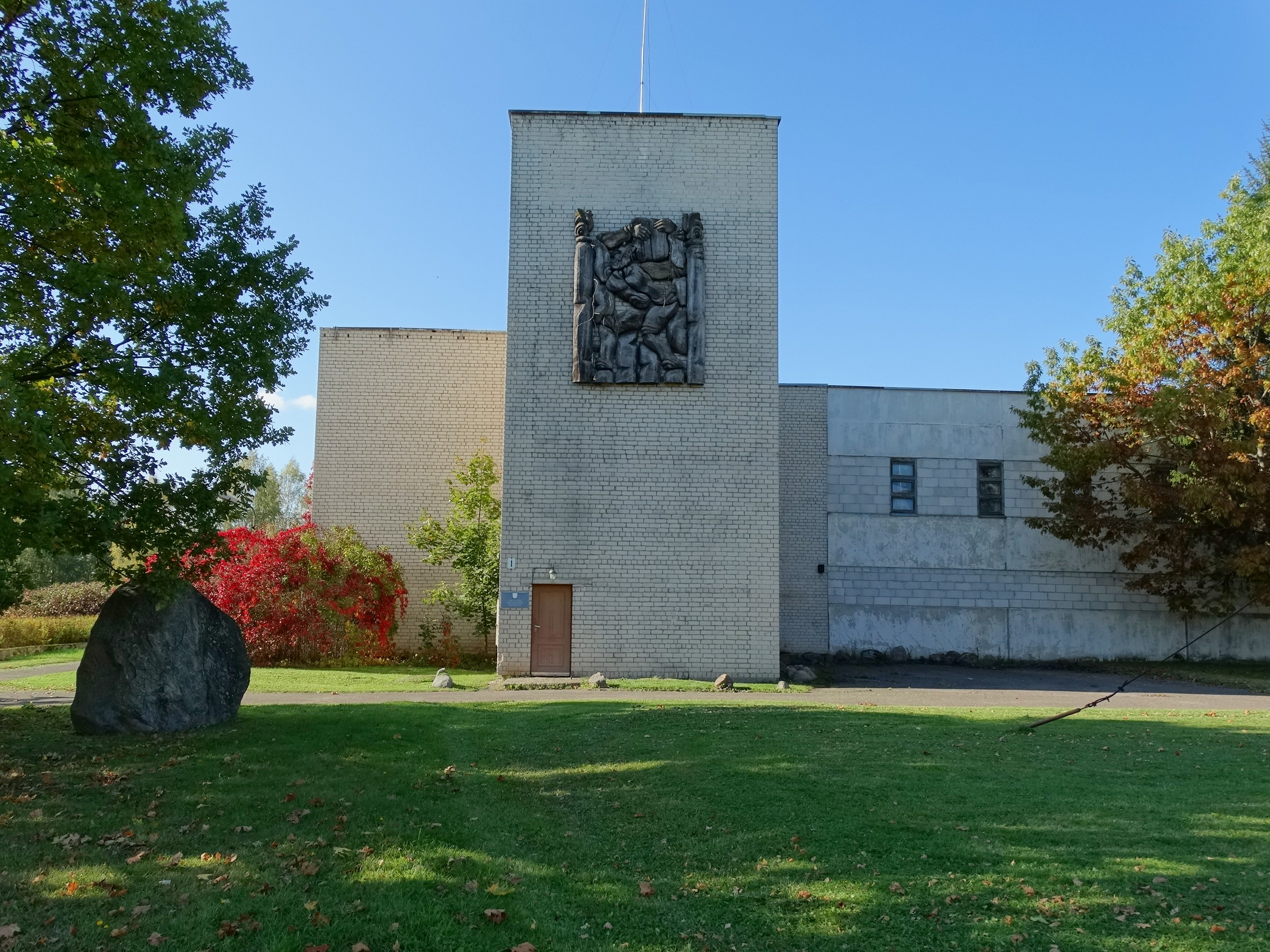 Vievis, museum of geology, Elektrėnai Municipality, Lithuania